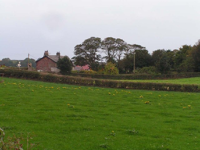 Holme St Cuthbert. The exquisite little church at Holme St Cuthbert is hidden in the trees on the left of this shot taken looking towards the village from the east.